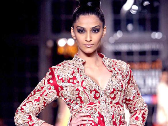 Sonam walks for Manish Malhotra at Delhi Couture Week 2011